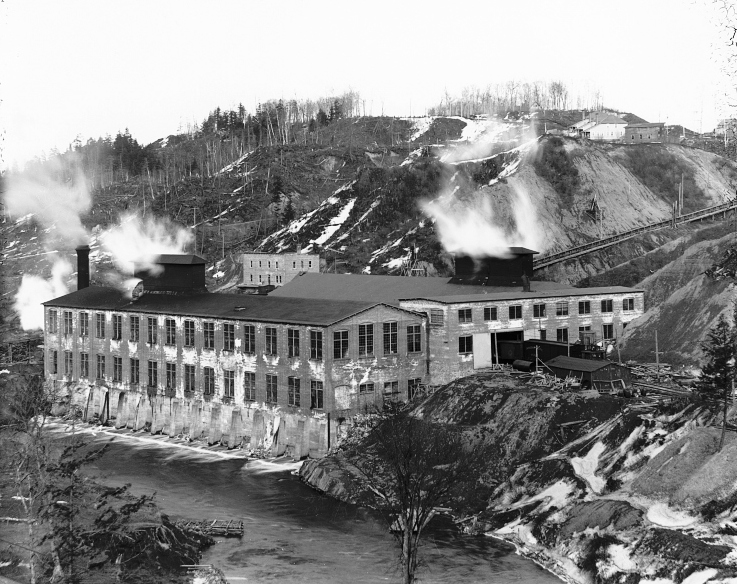 Photograph of the first buildings of the Belgo Canadian Pulp & Paper Company, built in 1901 on the left bank of the Shawinigan river, in Shawinigan Falls, Quebec.Photographed in 1906, Wm. Notman & Son. Silver salts on glass - Gelatin dry plate process - 20 x 25 cm